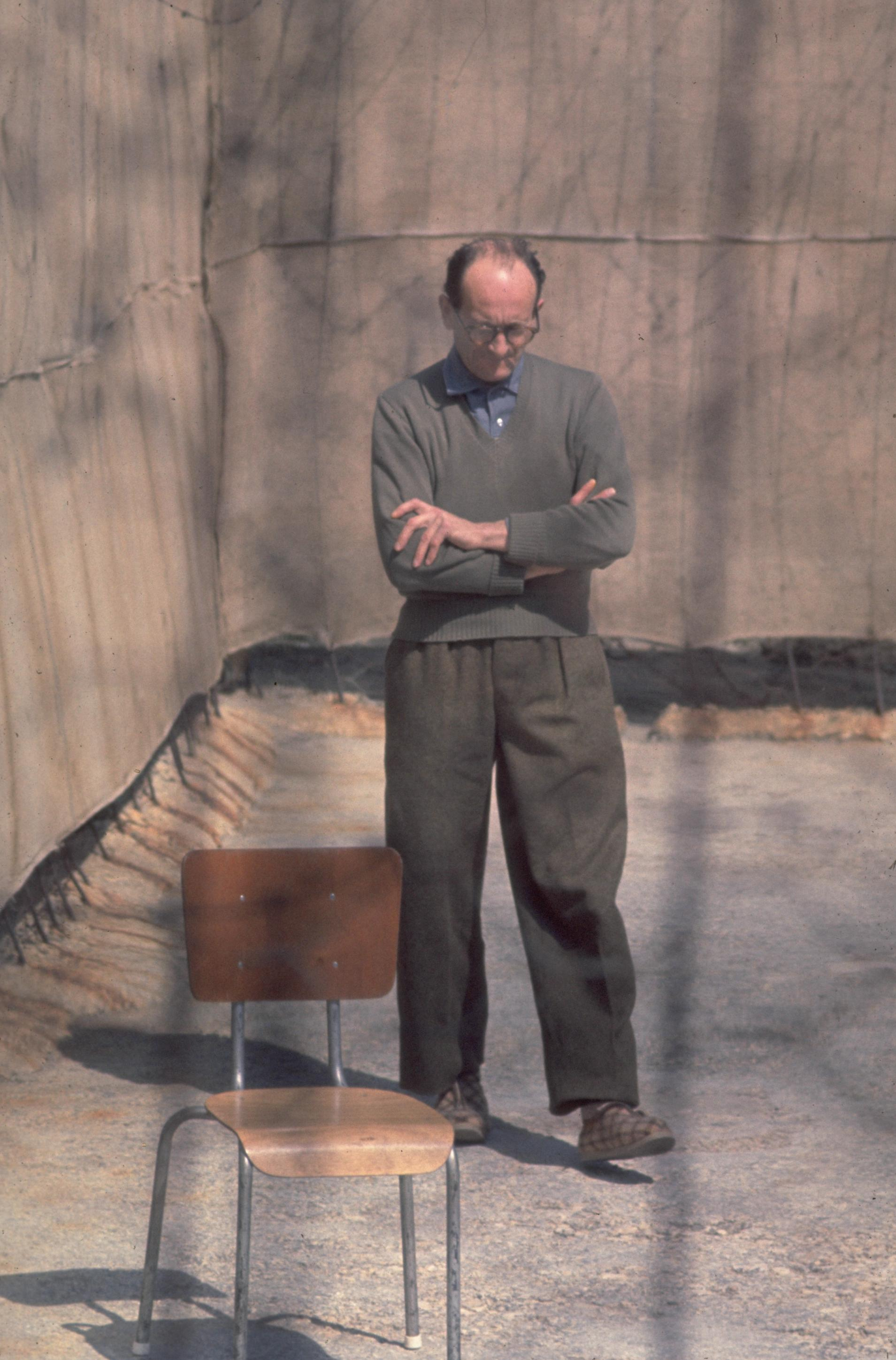 Adolf Eichman in Ayalon Prison, Ramla